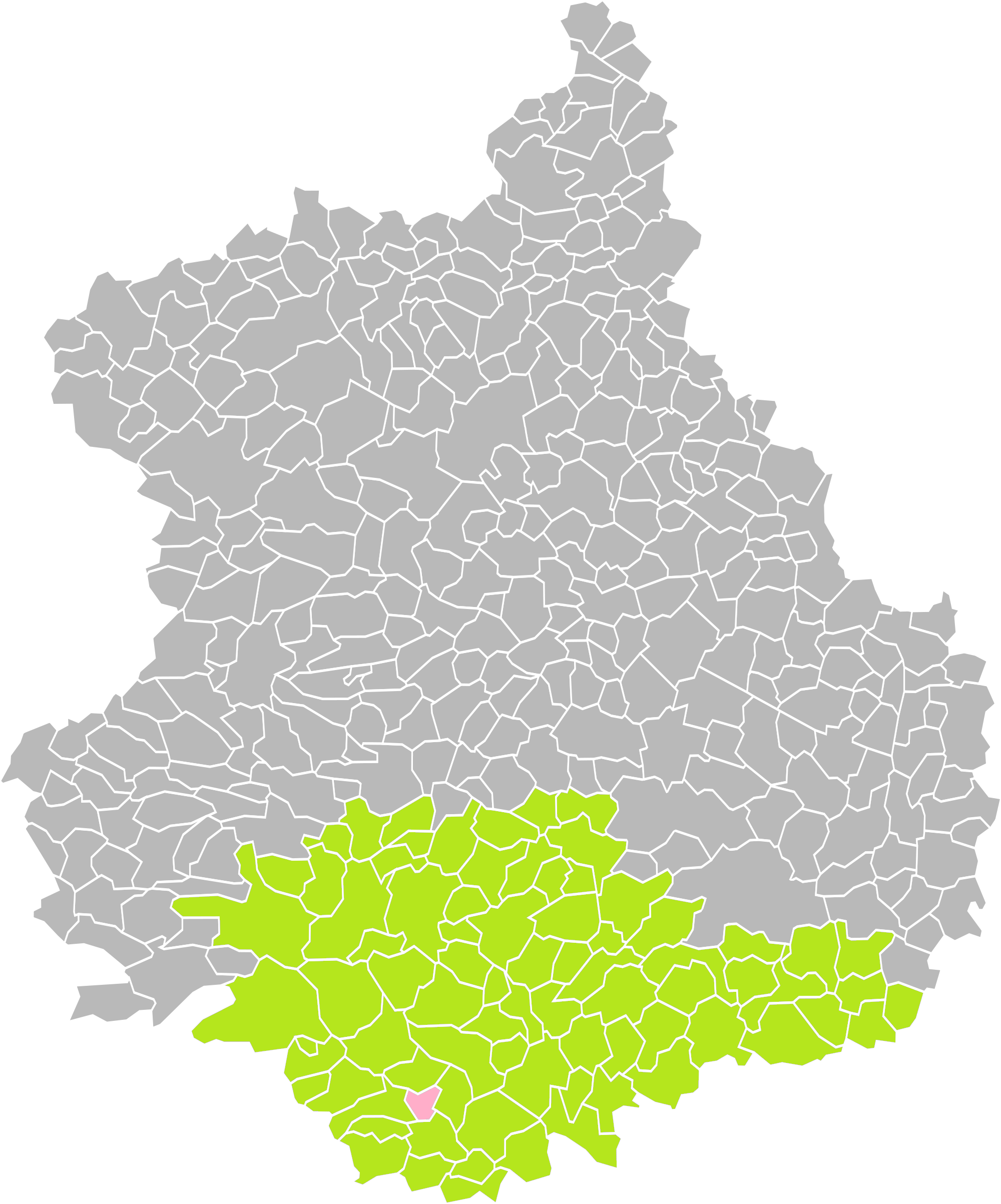 Location of the commune of Douy in the arrondissement of Châteaudun (Eure-et-Loir)